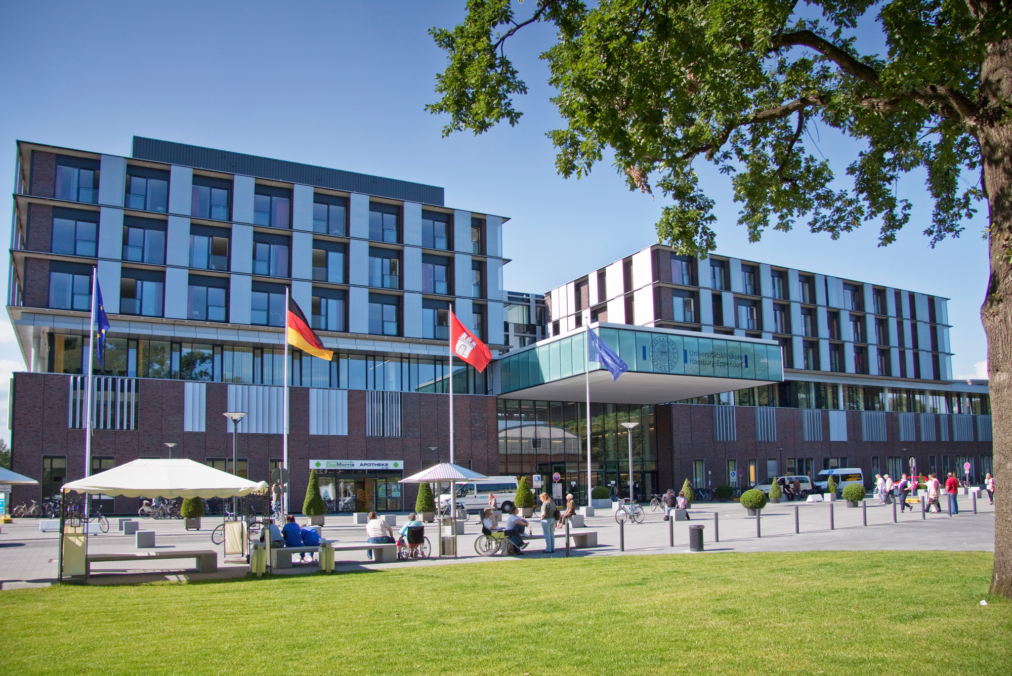 Main Entrance, University Medical Clinic Hamburg Eppendorf